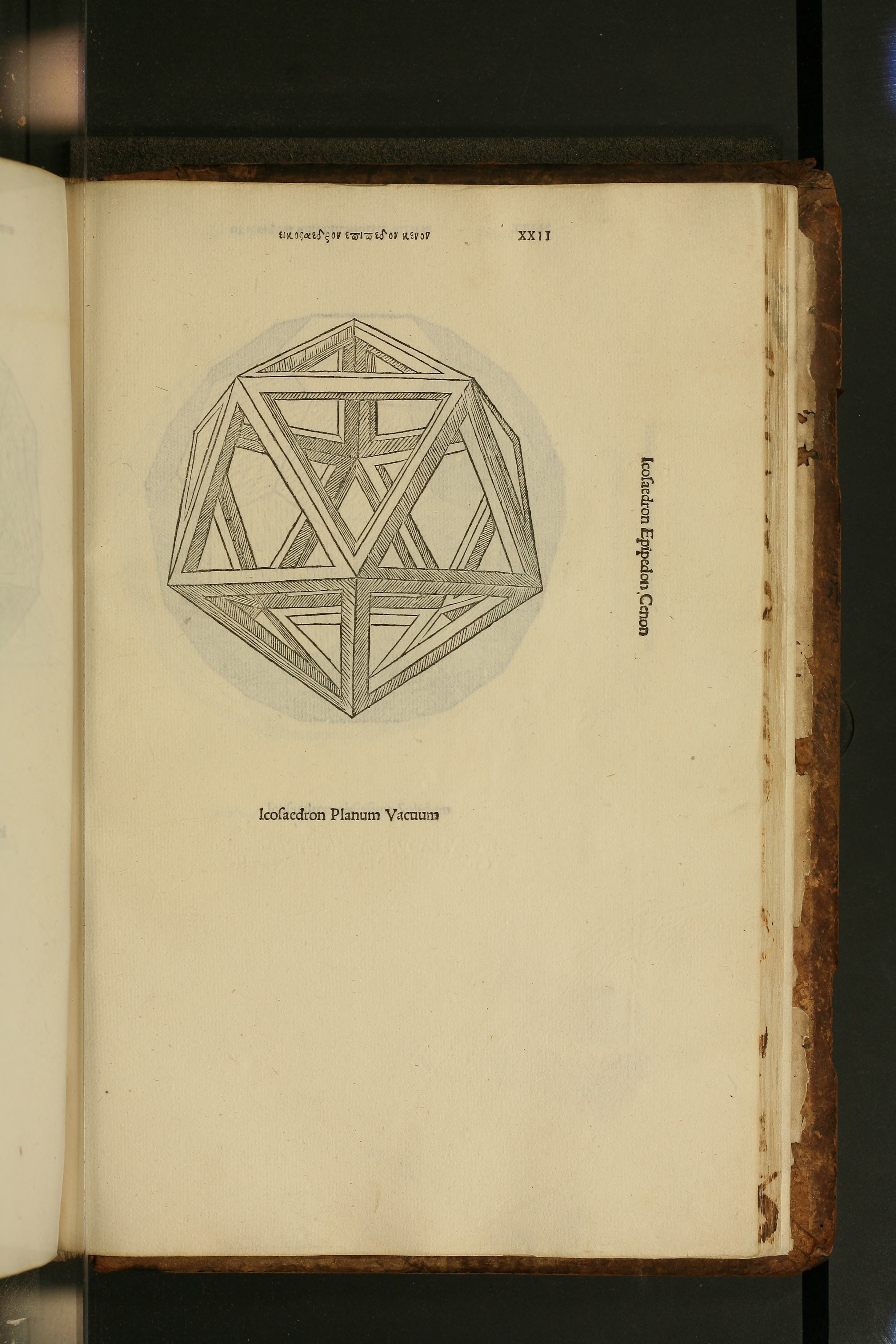 Illustrations by Leonardo da Vinci, from Luca Pacioli's "De divina proportione", 1509 edition.